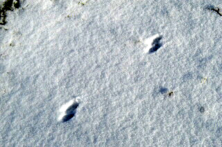 from Commanster, Belgian High Ardennes (50°15'20``N,5°59'58``E)